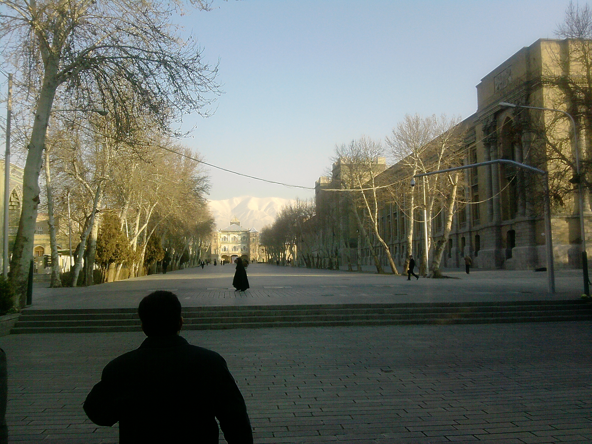 MINISTRY OF FM IRAN AFTER RENOVATION